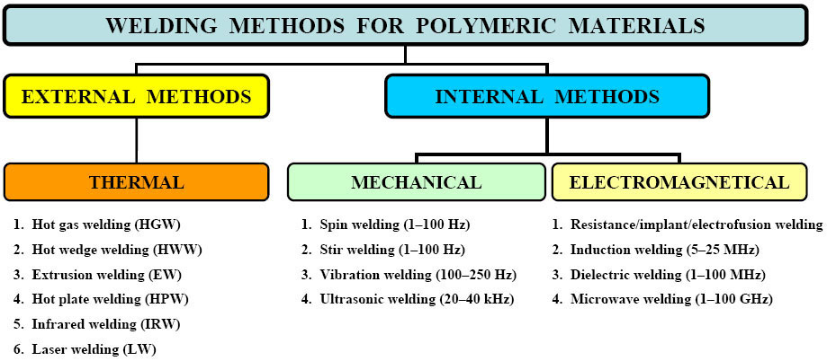 This file shows a diagram classifying welding methods for thermoplastic materials